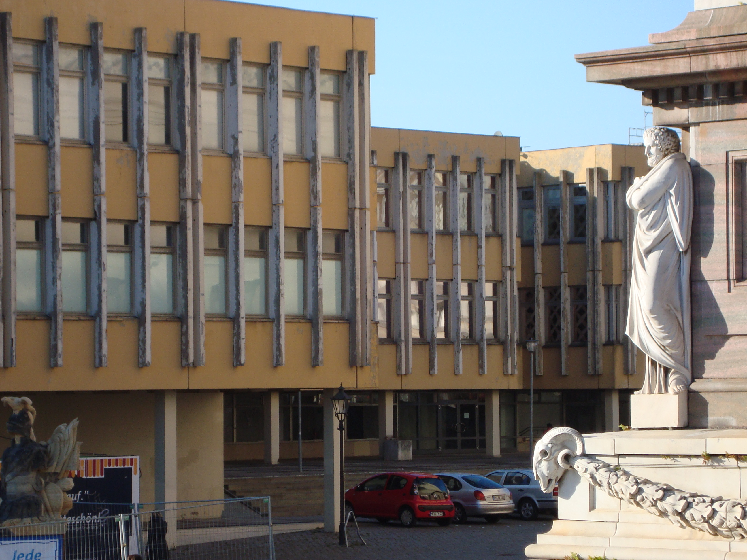 University of the Applied Sciences (detail) and a statue at the obelisque on the Old Market Square